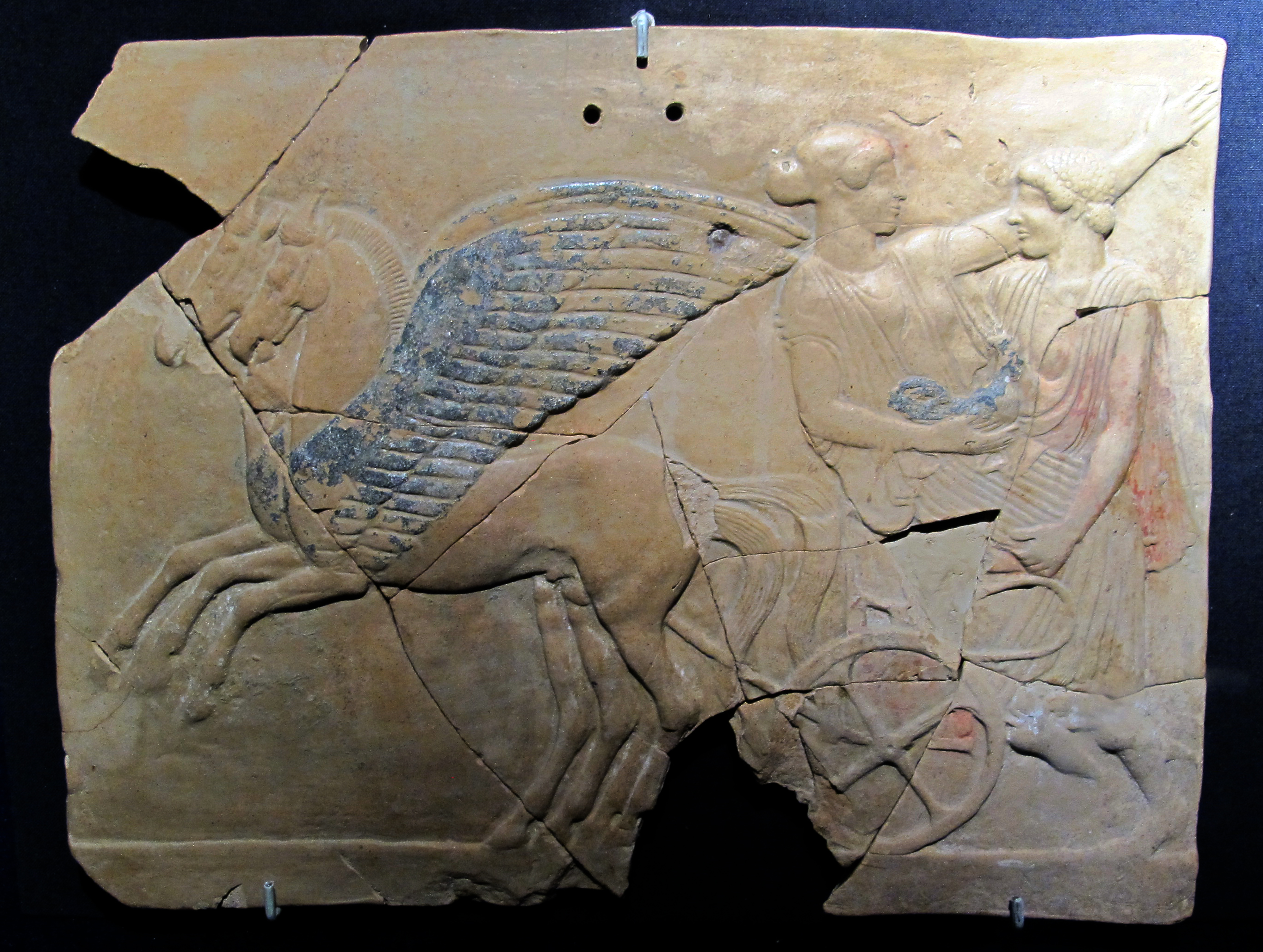 Monsters Exhibition (Palazzo Massimo, Rome, 2014)